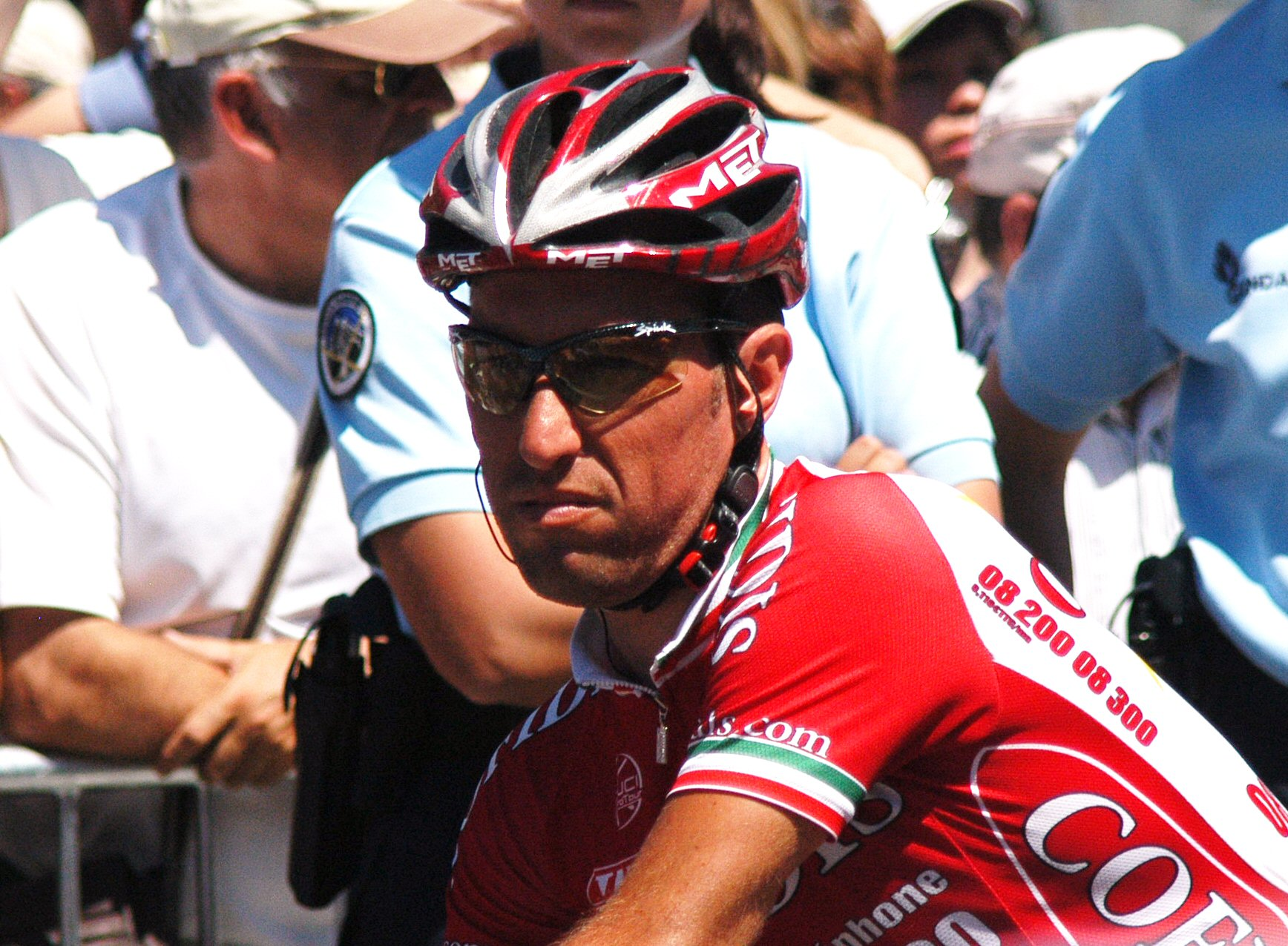 Cristian Moreni at the start of stage 8 in Le Grand Bornand, Tour de France 2007.